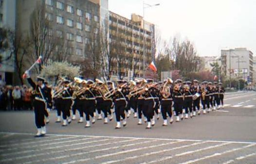 Military Orchestra of the Polish Navy.